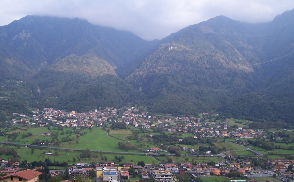 Village of Niardo, Val Camonica